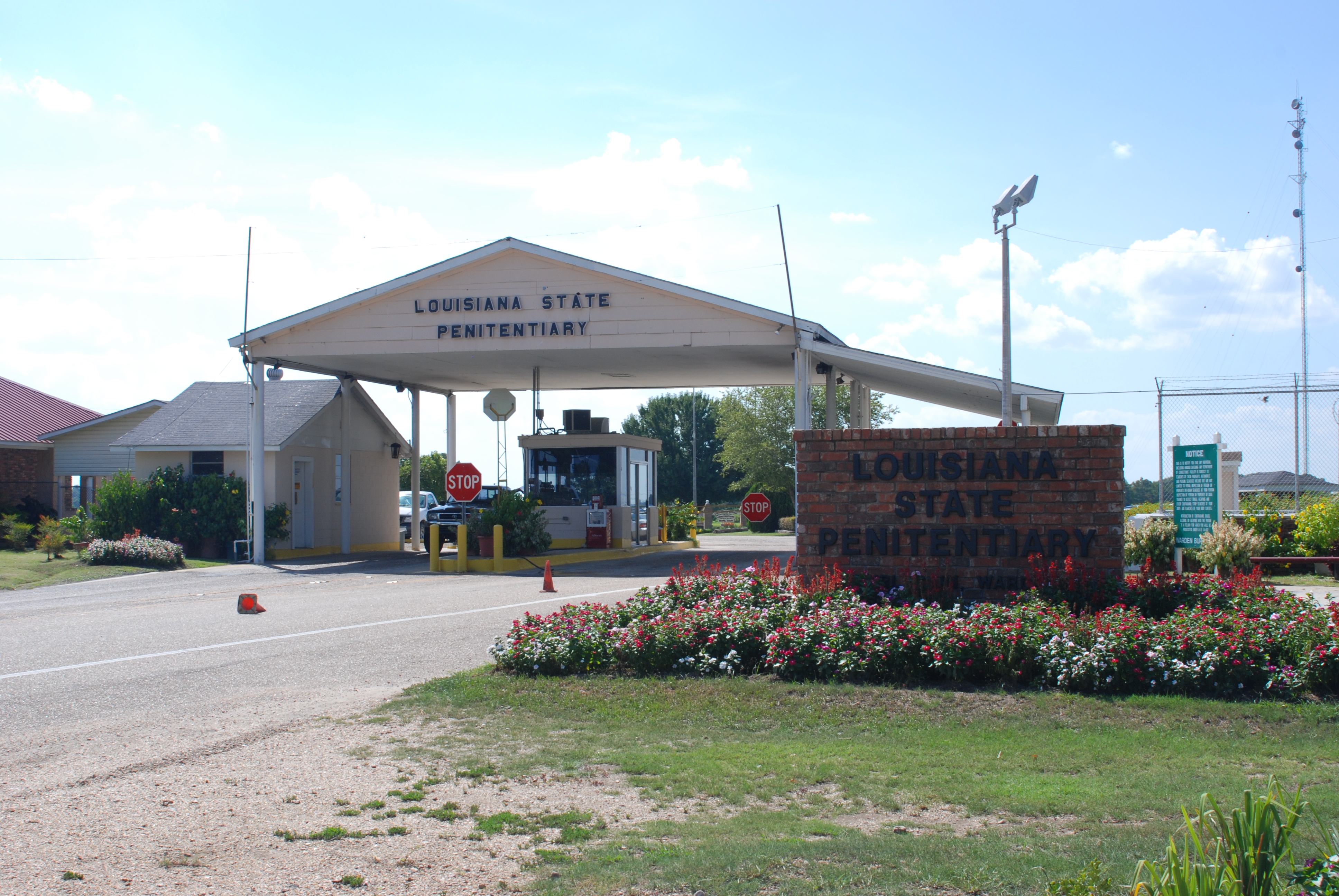 Louisiana State Penitentiary entrance - The placard says "Louisiana State Penitentiary" and "Warden Burl Cain"